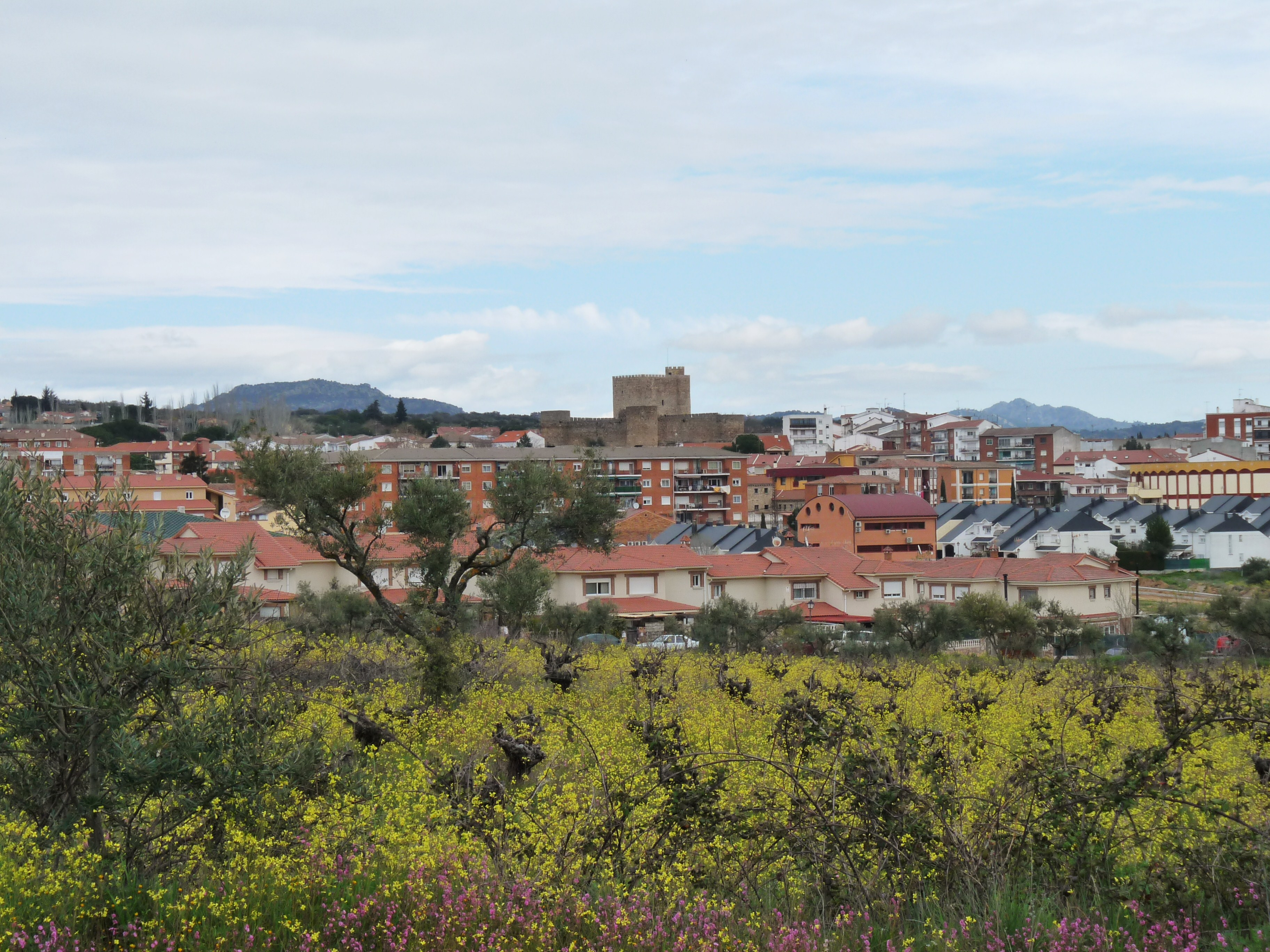 Main view of San Martín de Valdeiglesias, Madrid, Spain.